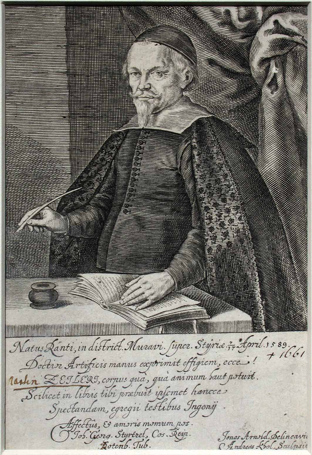 Martin Zeiller, Portrait (17th cent.), engraving by A. Kohl